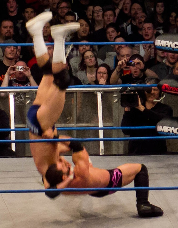 Austin Aries performs a brainbuster on Mark Haskins during the Impact! taping on January 28, 2012 in Wembley, England.